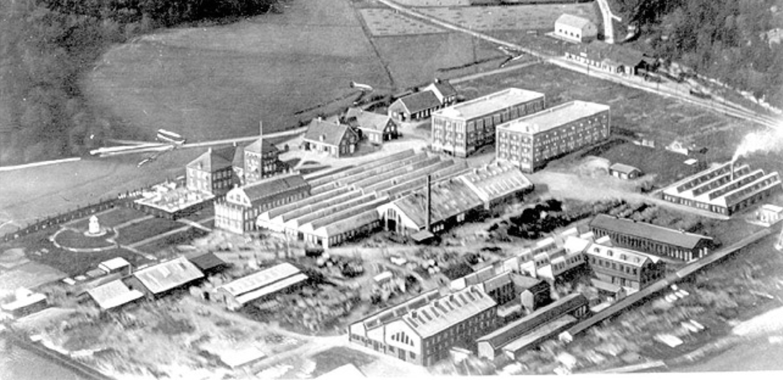 Aerial photo from an airplane 1920 over AGA production plant at Lidingö.